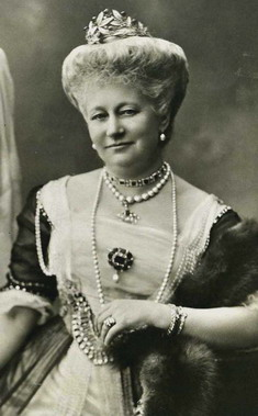 Augusta Victoria of Schleswig-Holstein, German Empress